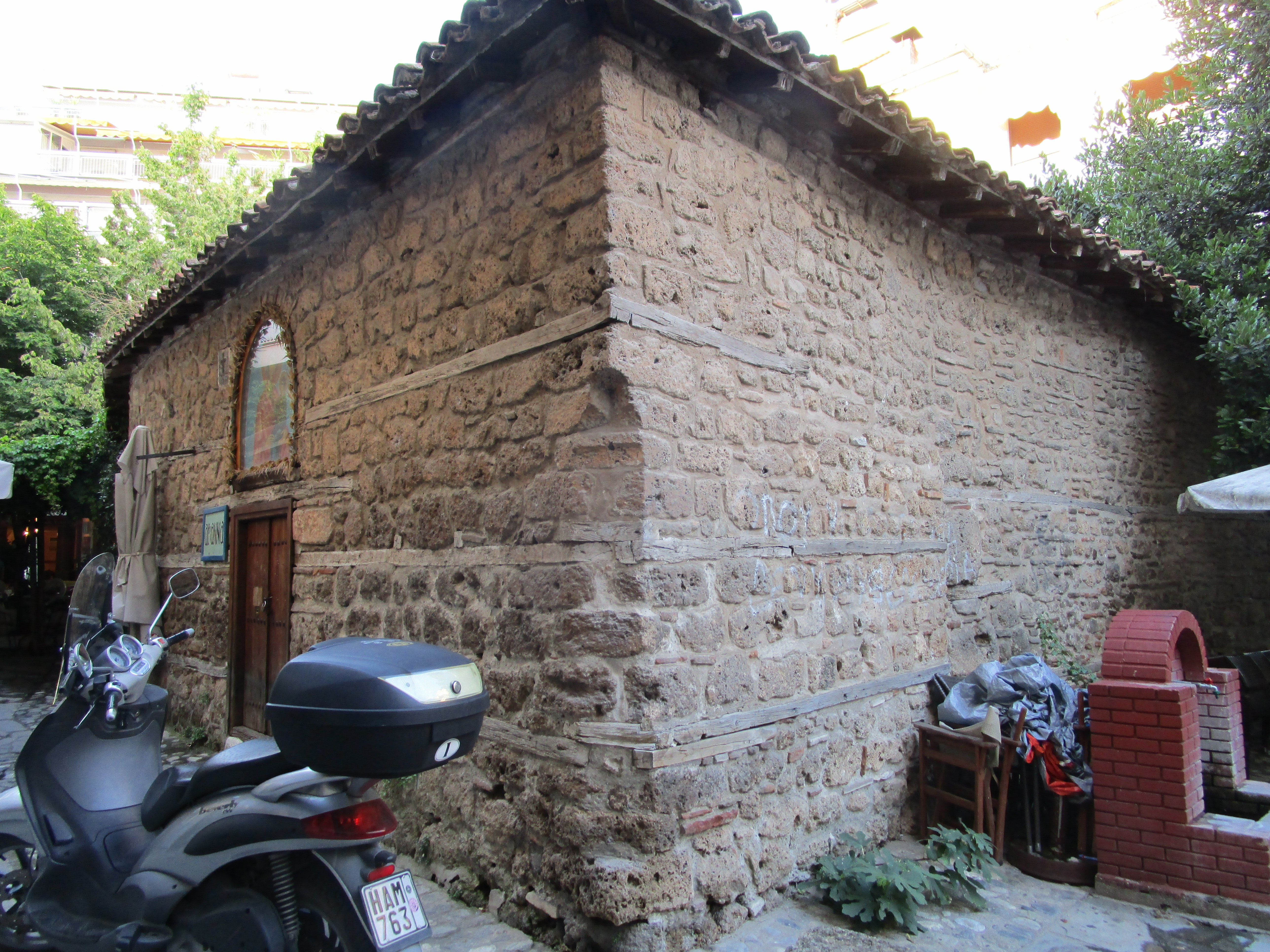 St. Anna XV, Ber